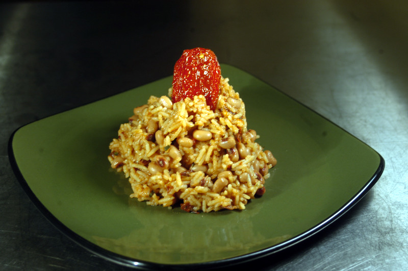 Cooked Basmati Rice and peas (beans), with pineapple juice, tomato paste, parsley, diced sun dried tomatoes and topped with a sun dried tomato.